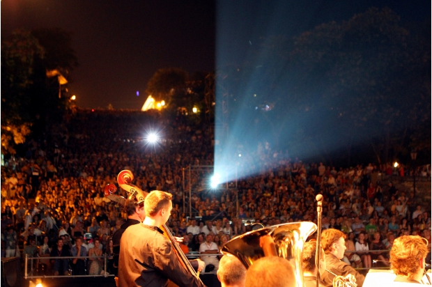 Odessa International Film Festival 2012 CITY LIGHTS" SCREENING AT THE POTEMKIN STAIRS